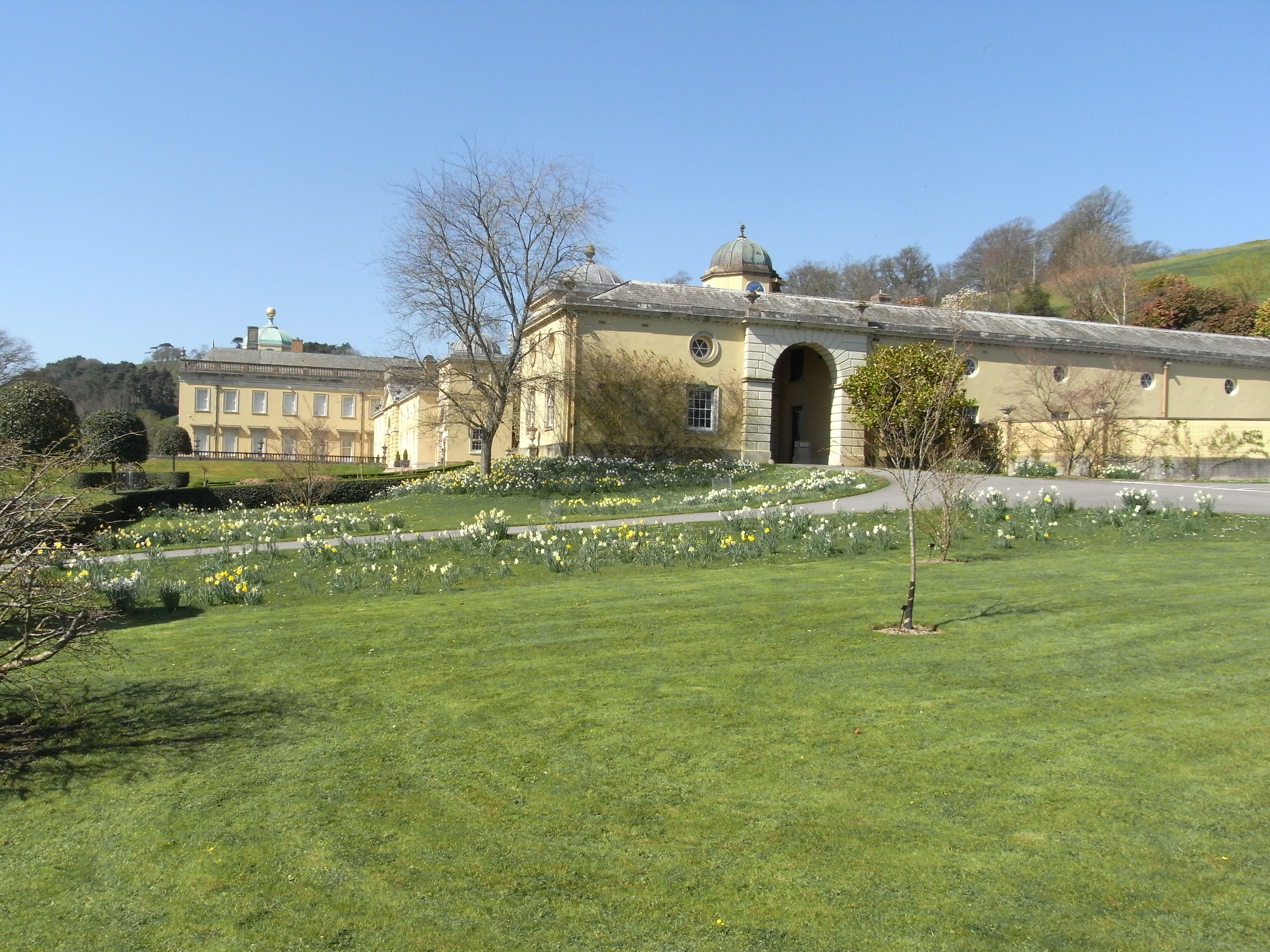 Castle Hill, Filleigh. Stable block with arched main entrance to inner courtyard of house